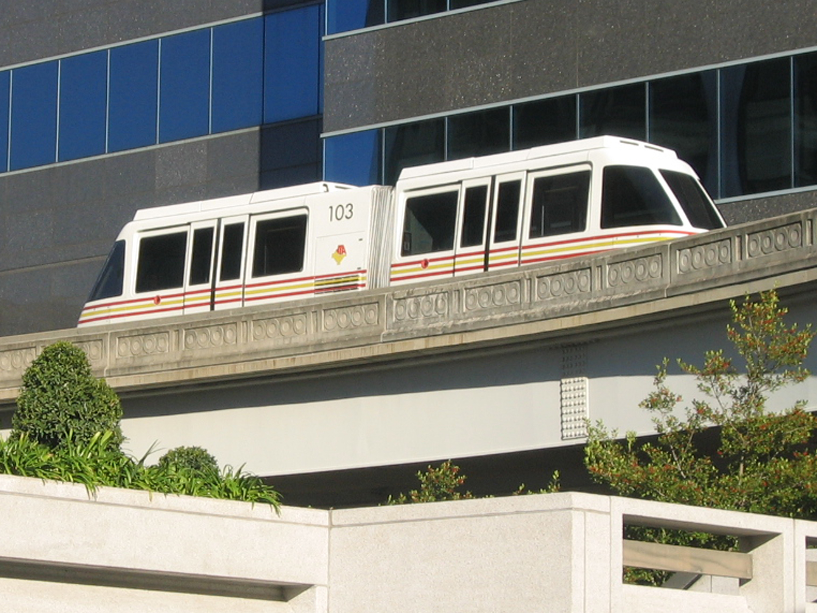 JTA Skyway train